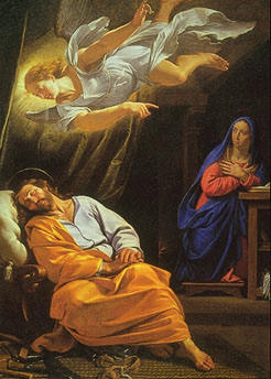 from [1]